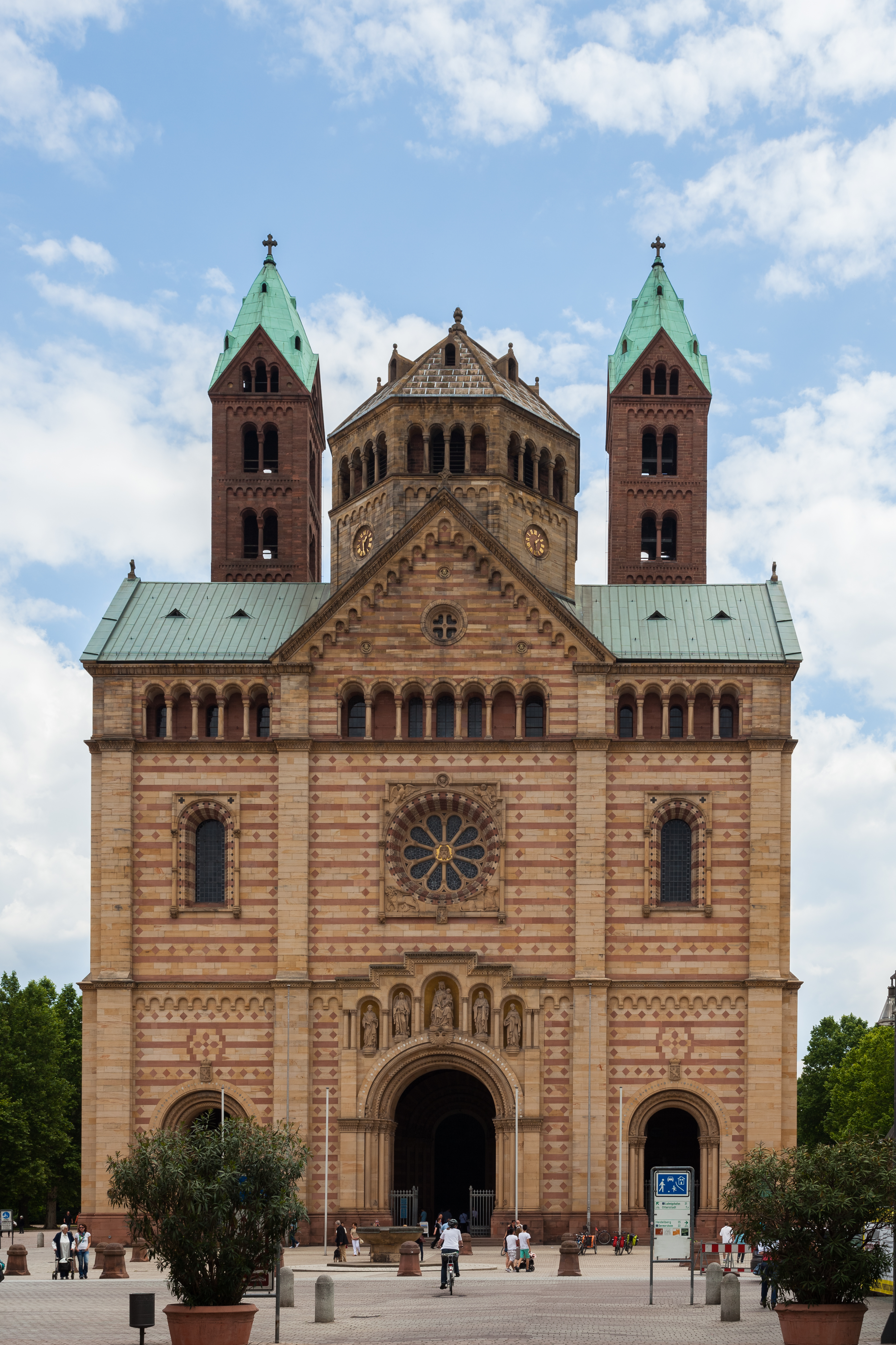 Speyer Cathedral, Germany